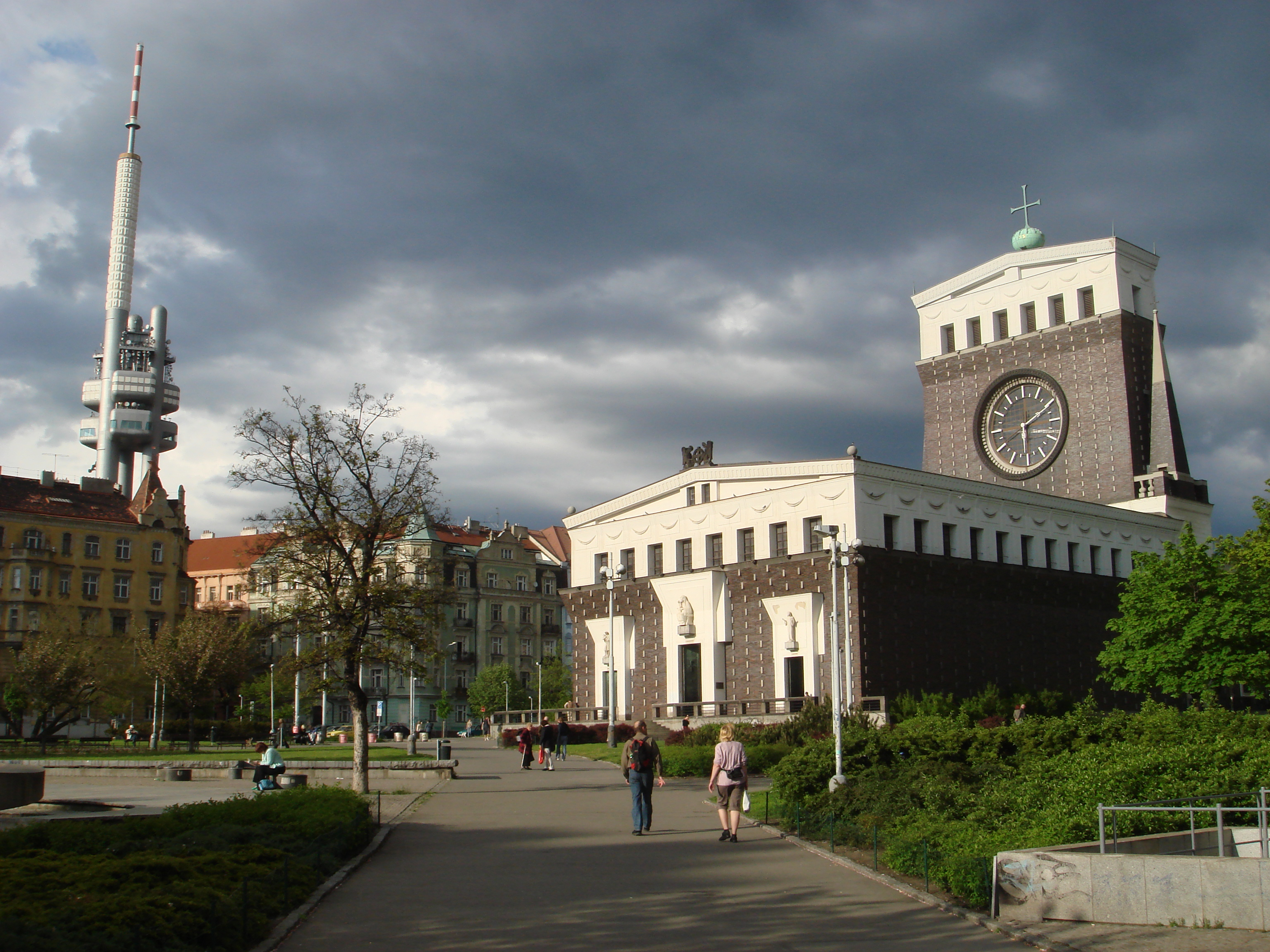 The Jiří z Poděbrad Square with the Church of the Sacred Heart of Jesus, on the left is the Žižkov Television Tower (Prague, Czech Republic).